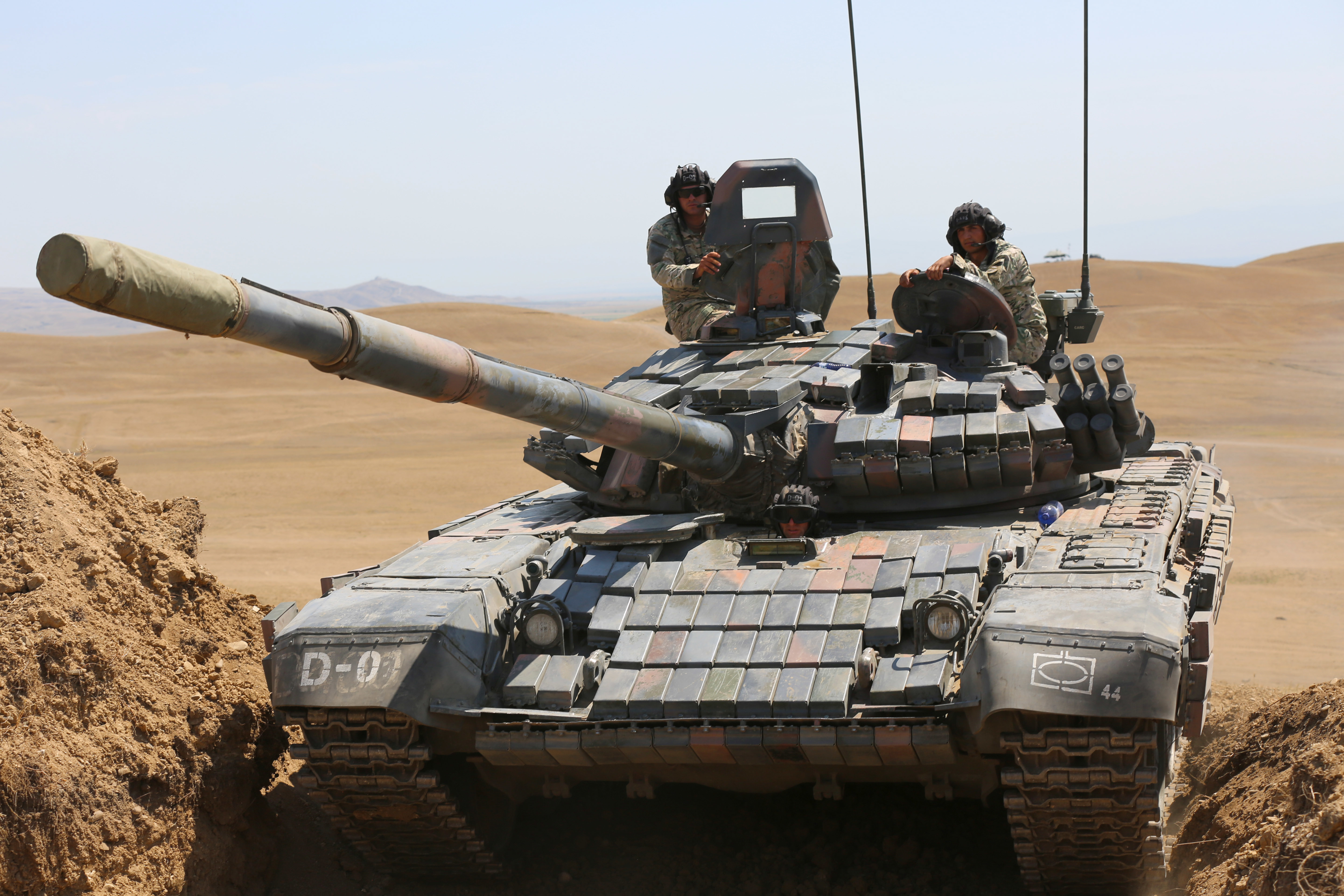 Georgian soldiers, 44th Armored Battalion, drive a T-72 tank into a fighting position during a combined training exercise, Vaziani, Republic of Georgia, Aug. 6, 2017. Noble Partner 17 supports Georgia in conducting home station training of its second NATO Response Force (NRF) contribution. Noble Partner will further enhance NRF and Operational Capabilities Concept interoperability and readiness in order to support regional stability. (U.S. Army photo by Sgt. Kalie Jones)